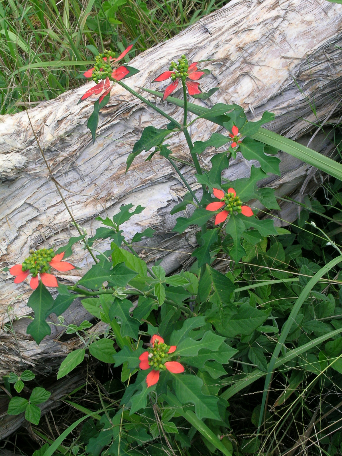 Introduced, annual herb to 70 cm tall, with main stems erect, often with branched lateral branches, may or may not be hairless. Leaves are stalked, opposite at the plant base, alternate up the stem and opposite on fertile branches. Uppermost leaves are usually reddish towards base. Lamina are elliptic to obovate or fiddle-shaped, hairless above and usually with a few appressed hairs below. Flowerheads are cyathia irregularly clustered at the ends of stems and branches; involucre 2–3 mm long. Fruit are 3–4 mm long, hairless capsules. Flowering occurs over most of the year. A native of tropical America, it is a weed on coastal sands.